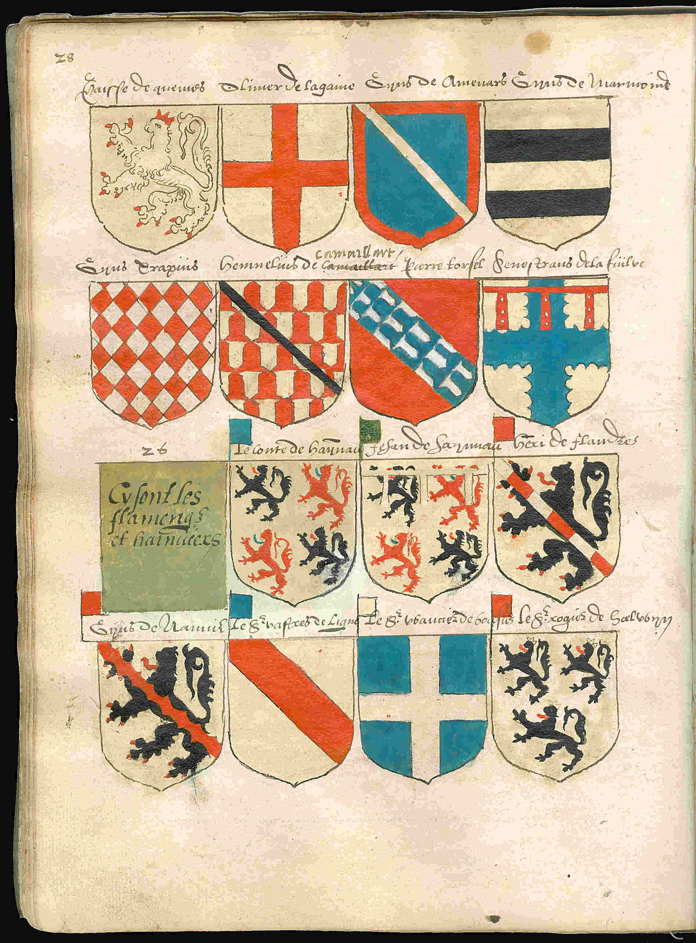 Page 28 from a copy of the Beyeren armorial / Wapenboek Beyeren from ca. 1600. The original Beyeren armorial from 1405 can be viewed at the website of the KB